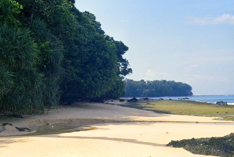 The beach on Rutland Island with the rock pools where we filmed tiny amphibians, off Great Andaman Island. 1997. Scanned in colour transparency.